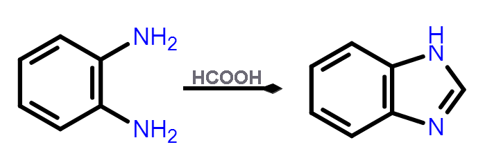 Benzimidazole synthesis from ortho-phenilenediamine